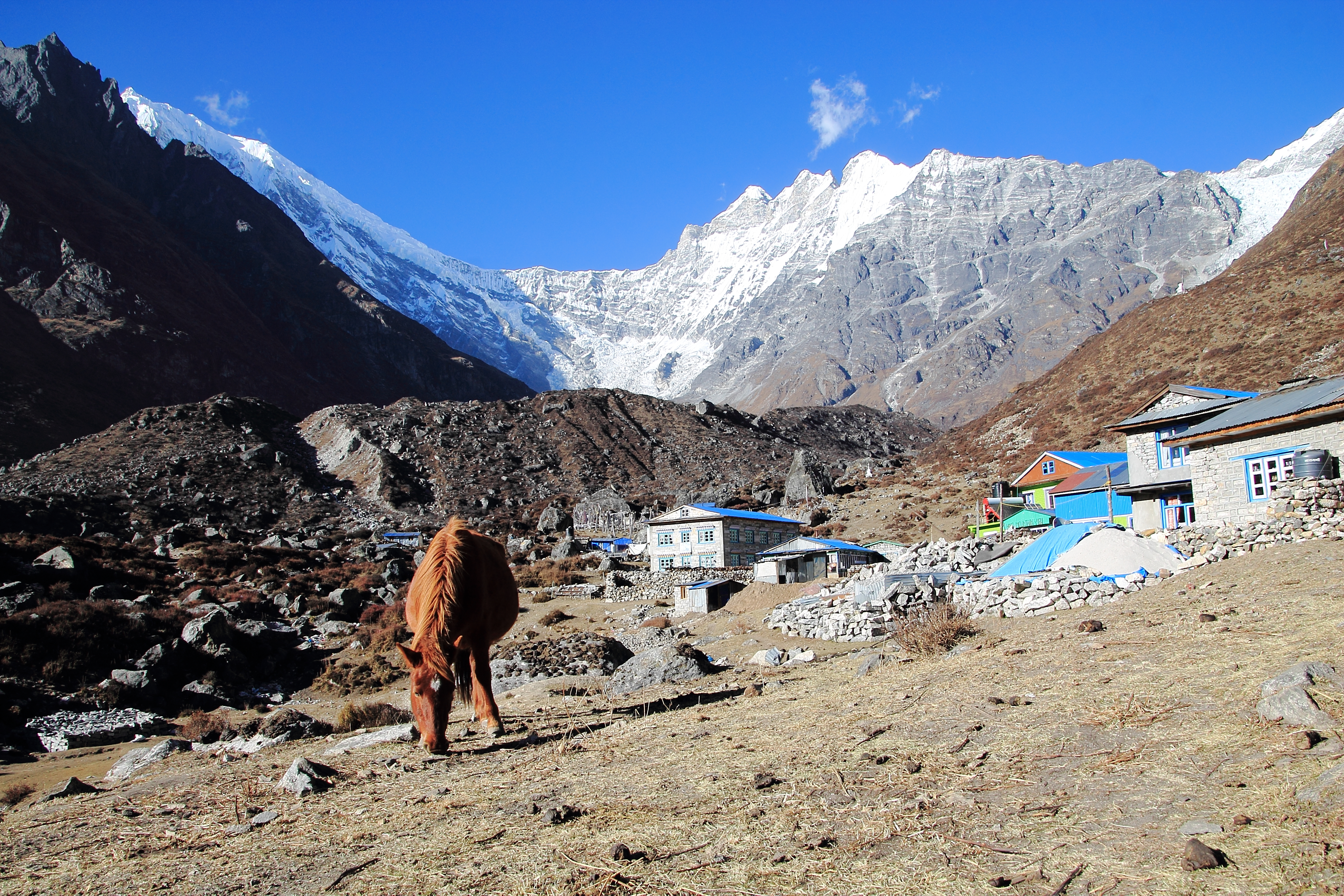 Horse riding in Kenzin valley Rasuwa